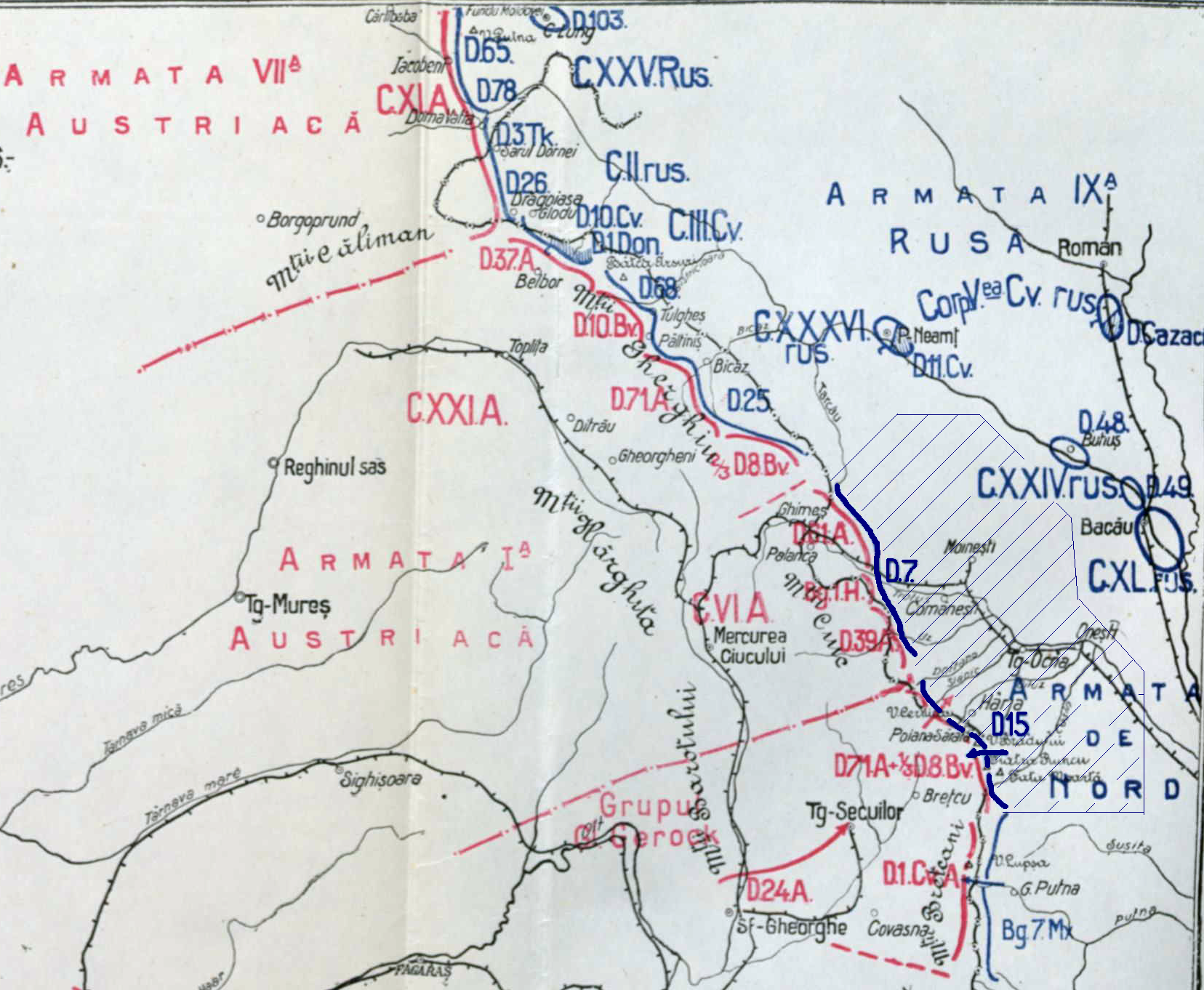 Situation of the forces belonging to the Armata de Nord (Romania) at the beginning of November 1916